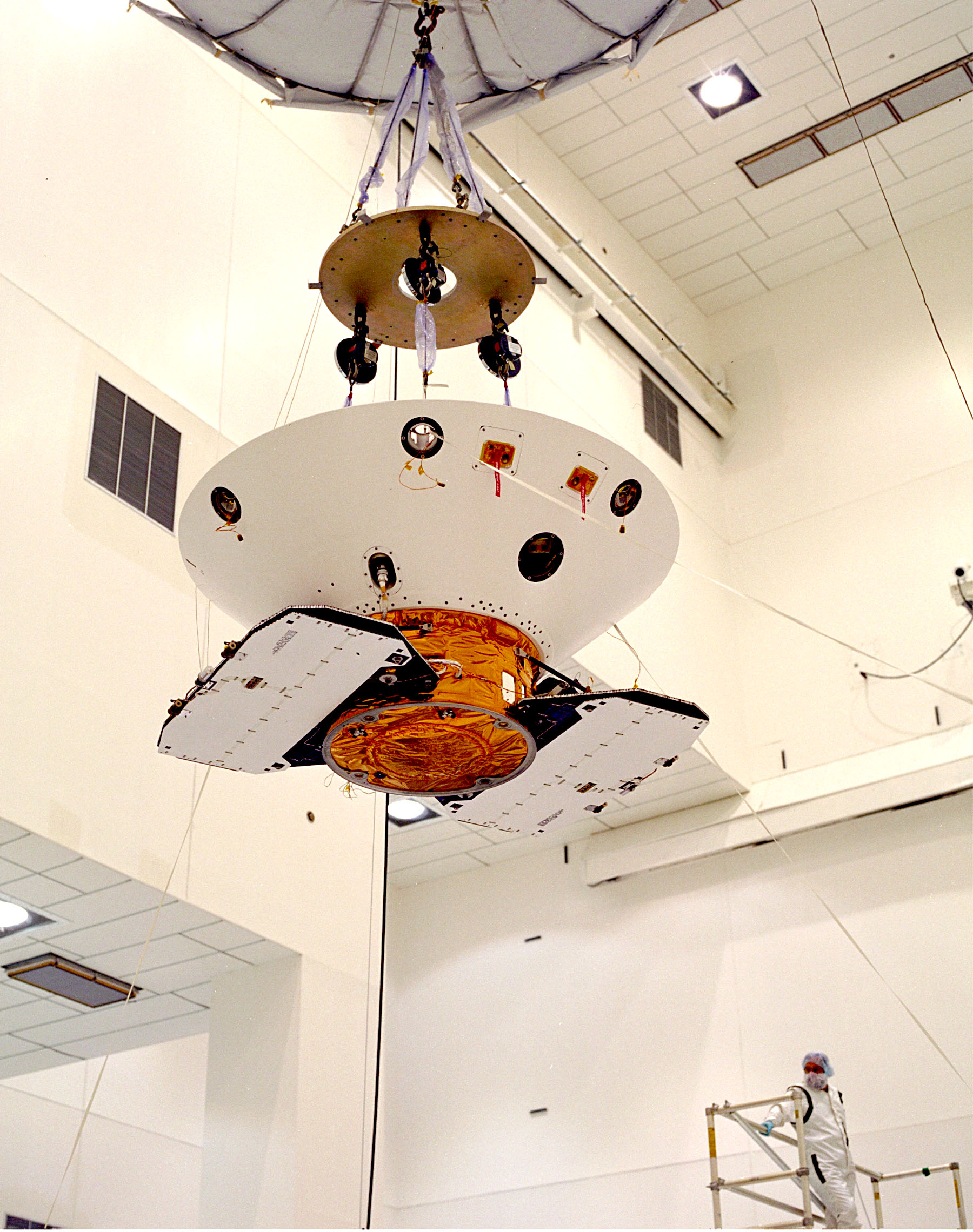 The Mars Polar Lander is suspended from a crane in the Spacecraft Assembly and Encapsulation Facility-2 (SAEF-2) before being lowered to a workstand. There it will be mated to the third stage of the Boeing Delta II rocket before it is transported to Launch Pad 17B, Cape Canaveral Air Station. The lander, which will be launched on Jan. 3, 1999, is a solar-powered spacecraft designed to touch down on the Martian surface near the northern-most boundary of the south pole in order to study the water cycle there. The lander also will help scientists learn more about climate change and current resources on Mars, studying such things as frost, dust, water vapor and condensates in the Martian atmosphere. It is the second spacecraft to be launched in a pair of Mars '98 missions. The first is the Mars Climate Orbiter, which was launched aboard a Delta II rocket from Launch Complex 17A on Dec. 11, 1998.